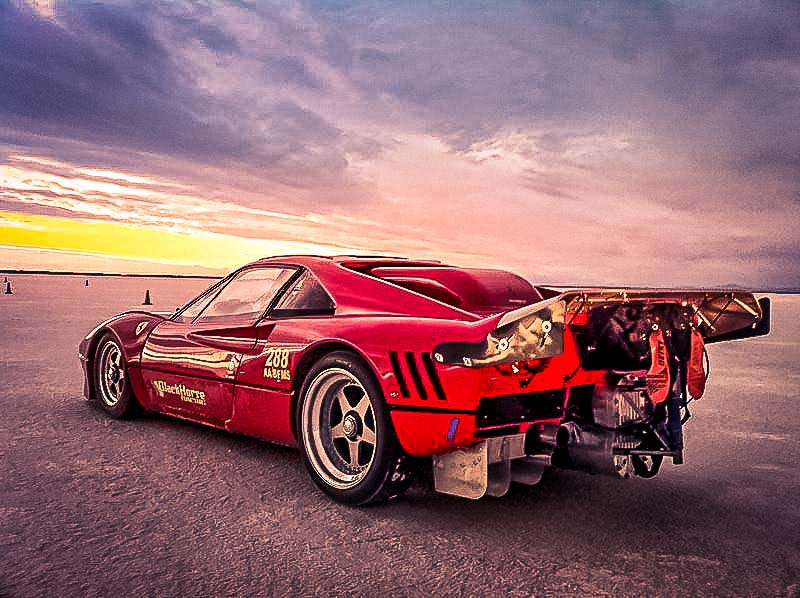 Ferrari 288 GTO prior to record setting run at Bonneville 2010